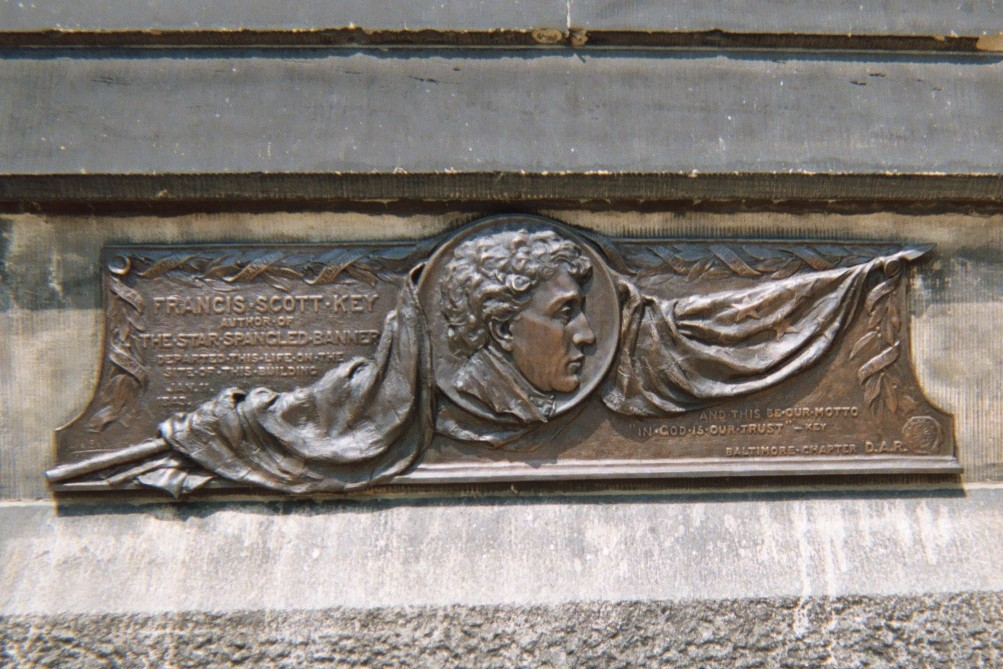 Plaque commemorating the death of Francis Scott Key placed by the Daughters of the American Revolution in Mount Vernon, Baltimore, Maryland.